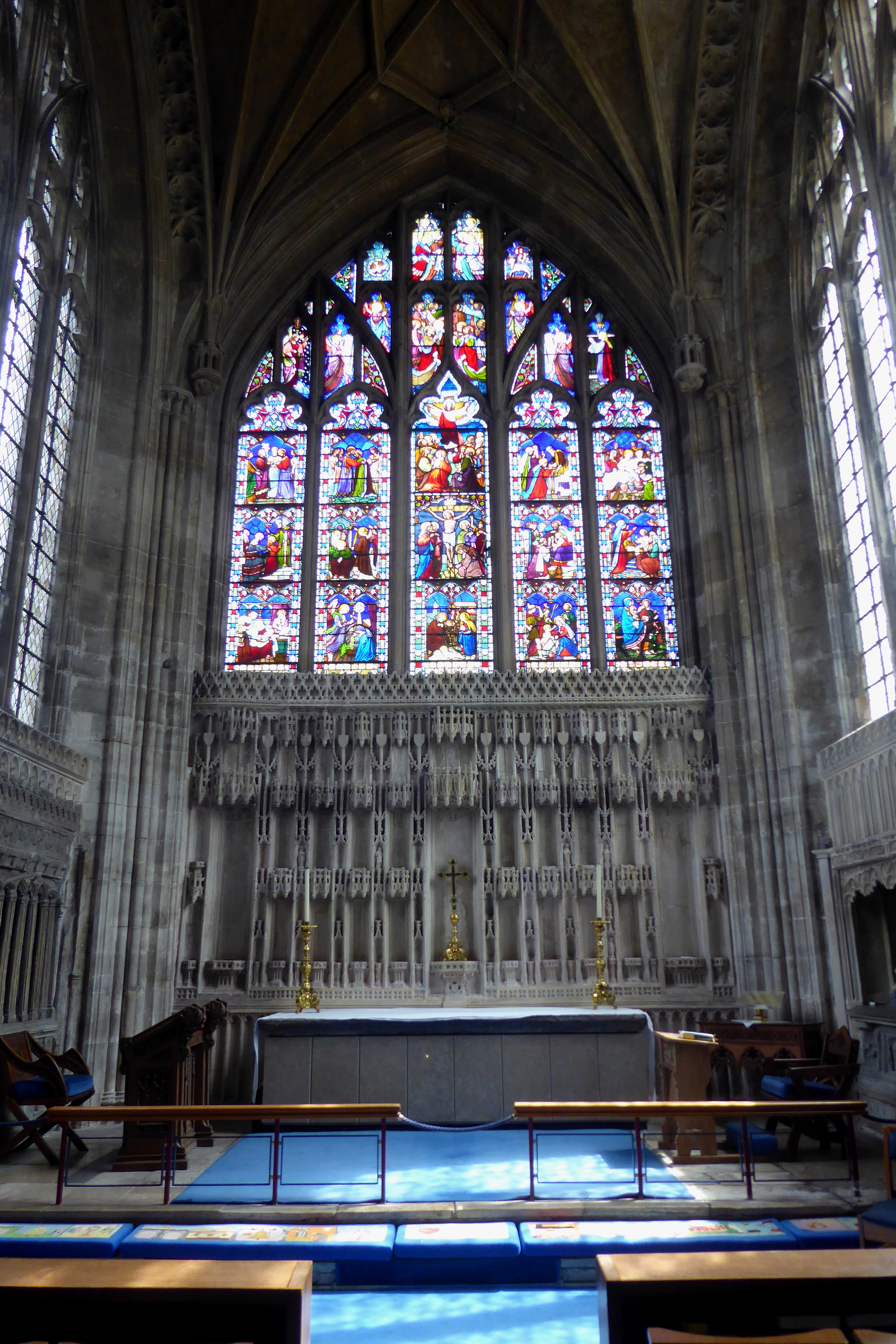 The Lady Chapel, located at the far eastern end of Christchurch Priory, Dorset.